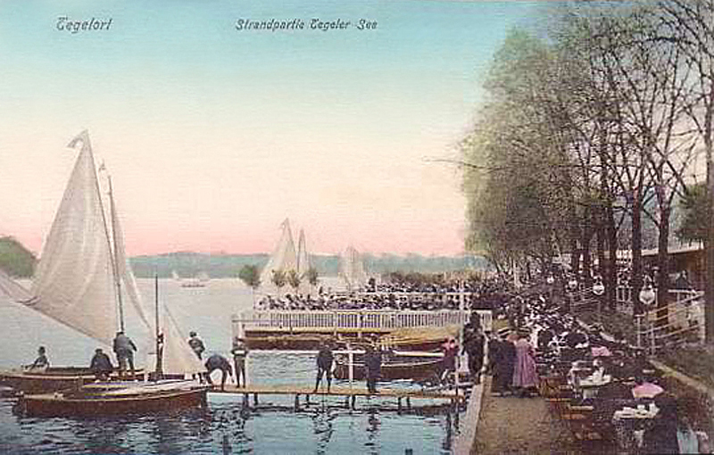 Water front, Tegelort, Berlin